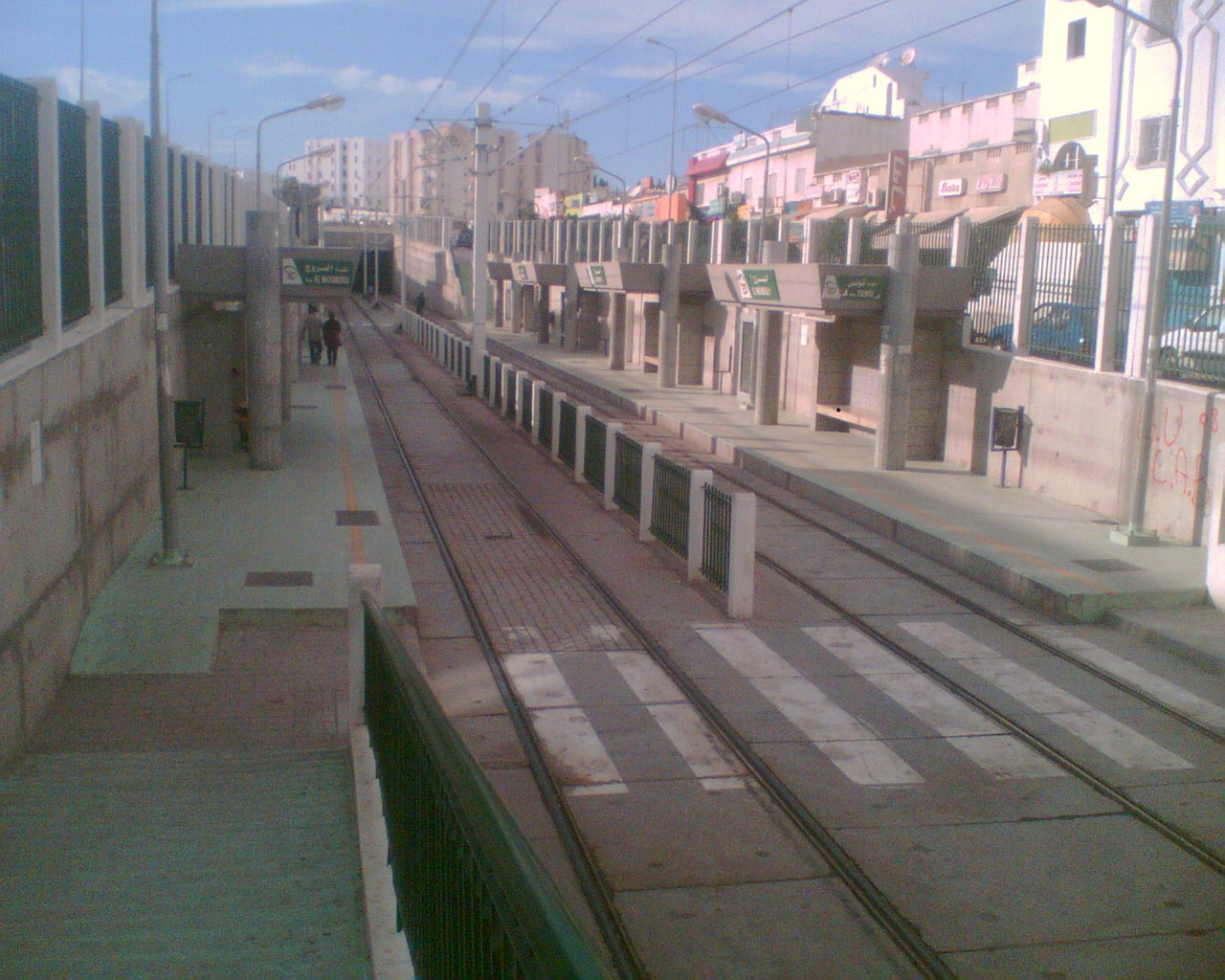 A general view of the light rail station (line 6); It is located in El Mourouj (the first station). It has a lower level than other metro stations in Tunis, you can note that in seeing the cars on the left or rebuild the angle of the photo wich is from top to bottom.